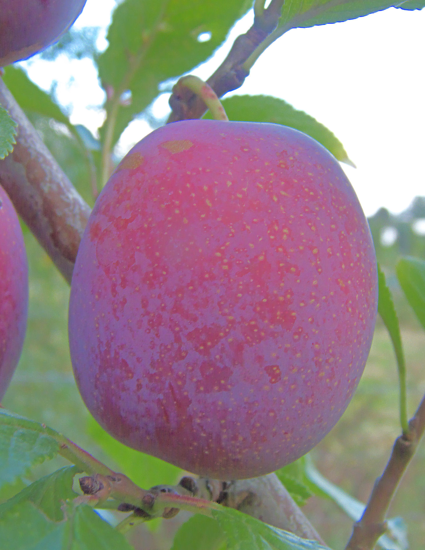 Prunus domestica 'Anna_späth'